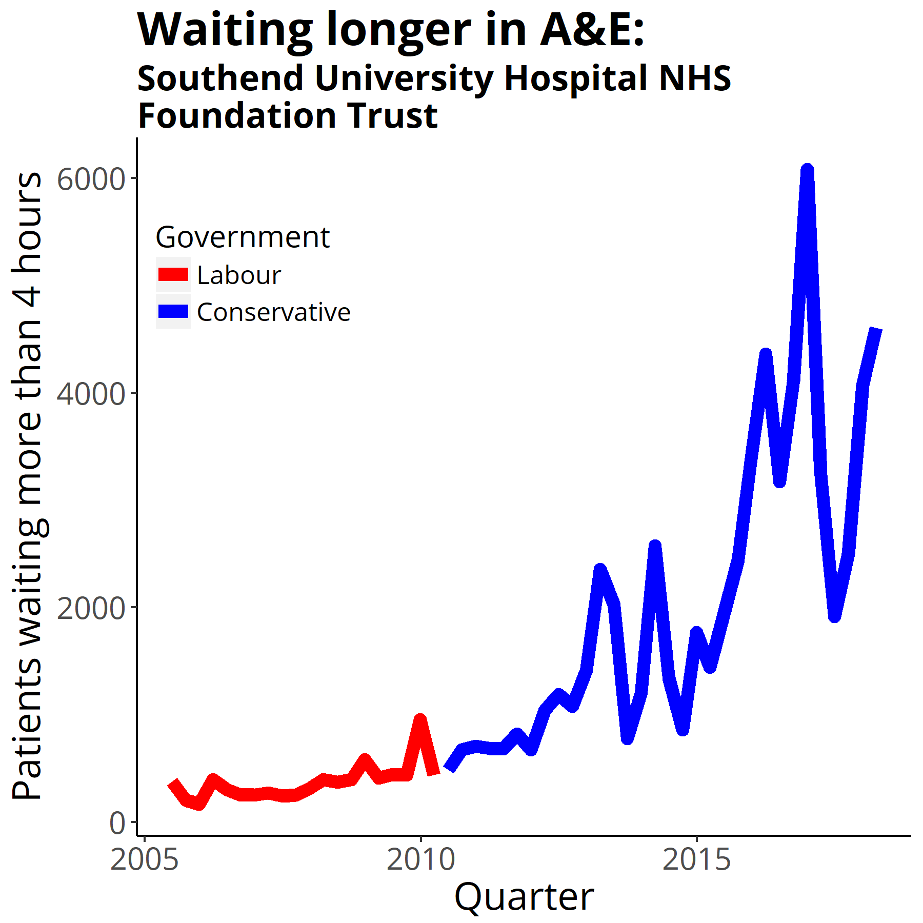 Four-hour target in the emergency department quarterly figures from NHS England A&E waiting times and activity. NHS England. Retrieved on 24 April 2018.